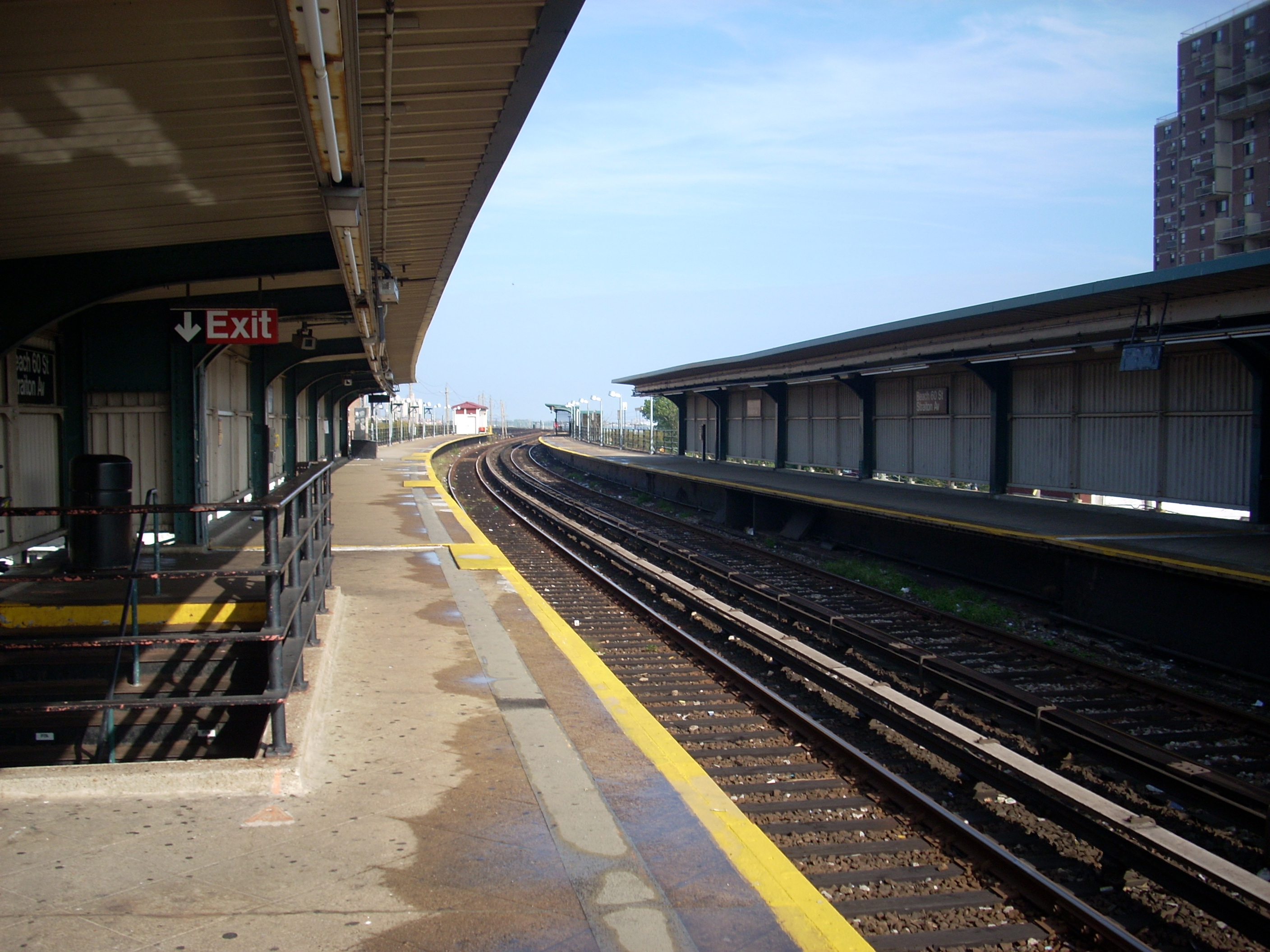 Looking east at Beach 60th Street on the A